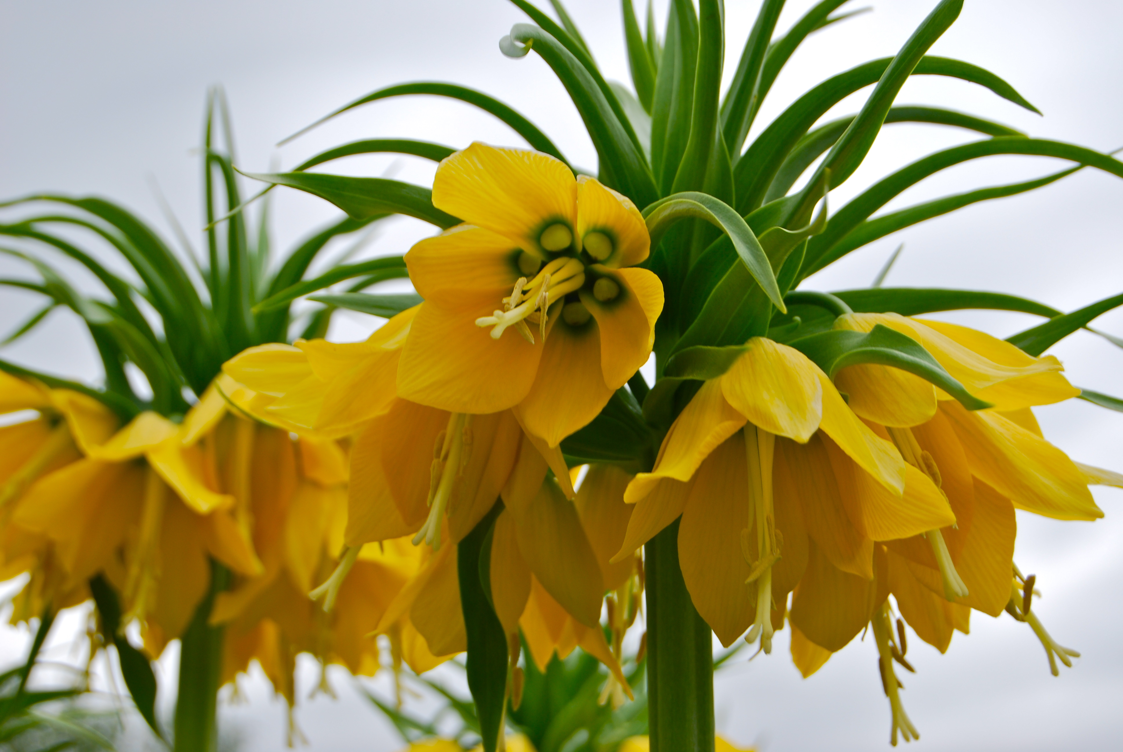 Yellow Crown Imperials (Fritillaria imperialis)